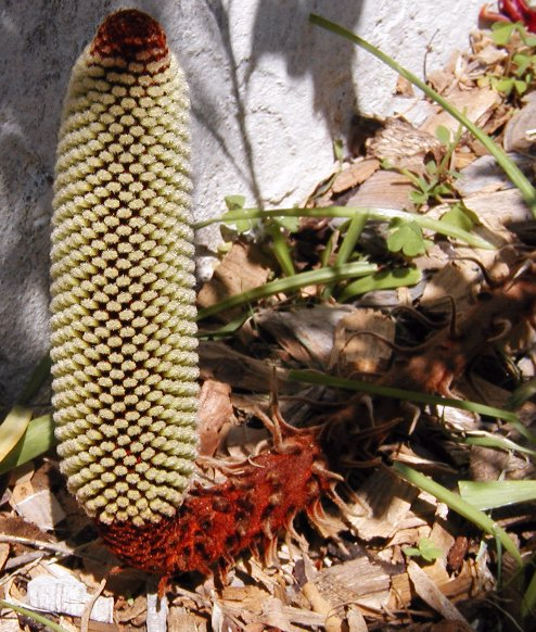 Banksia petiolaris in bud, photo Cas Liber